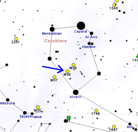 M36 map